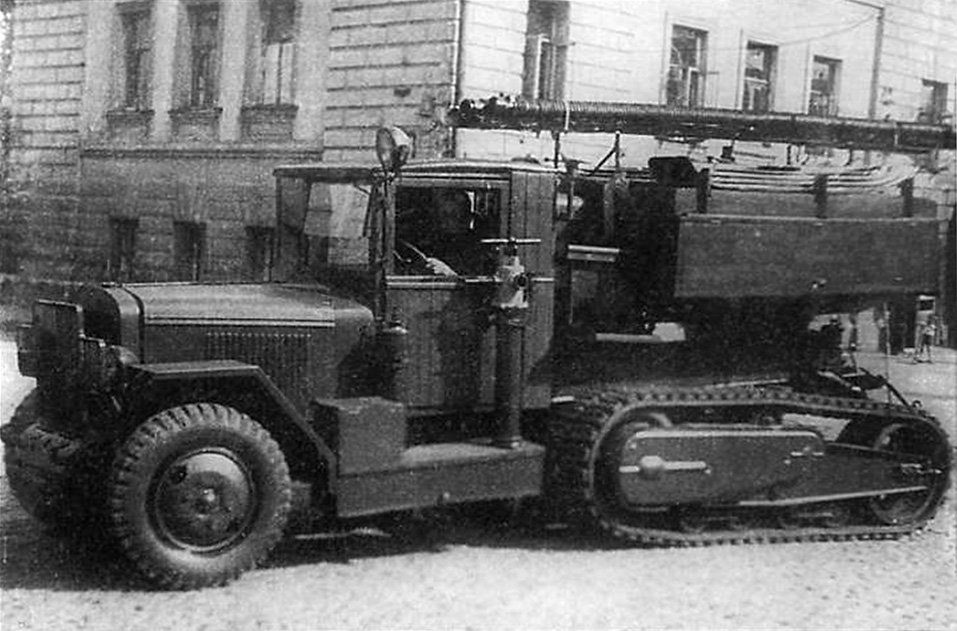 ZiS-42M fire engine